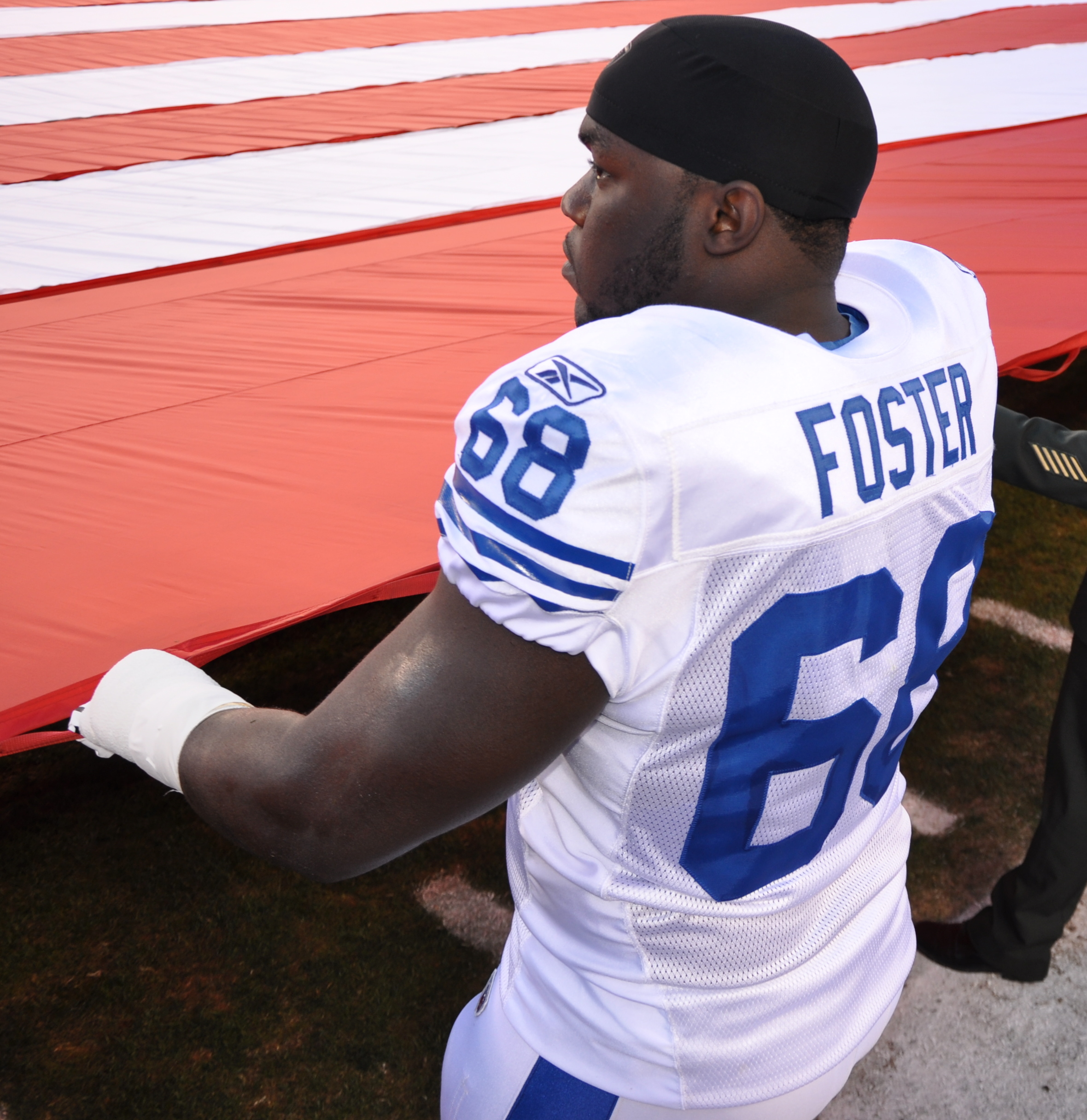 The Eagles beat the Colts on Nov. 7, 2010 at Lincoln Financial Field but the game also served as Military Appreciation Day at the stadium. A Stryker vehicle was placed on display and showcased outside Lincoln Financial Field for attendees. For the National Anthem, 103 military members from all branches of our Armed Forces, including 70 Pennsylvania Guardsman, unfurled the American Flag during the pre-game show. During the half-time show the same military personnel marched onto mid-field in a very tight formation and came to the position of attention, while God Bless America played. Pennsylvania’s partnership under the National Guard Bureau’s State Partnership Program also was also featured at the event as Lithuanian troops participated with their Pennsylvania National Guard partners. (U.S. Army photo by 1st Lt. Gregory Mcelwain/Released)